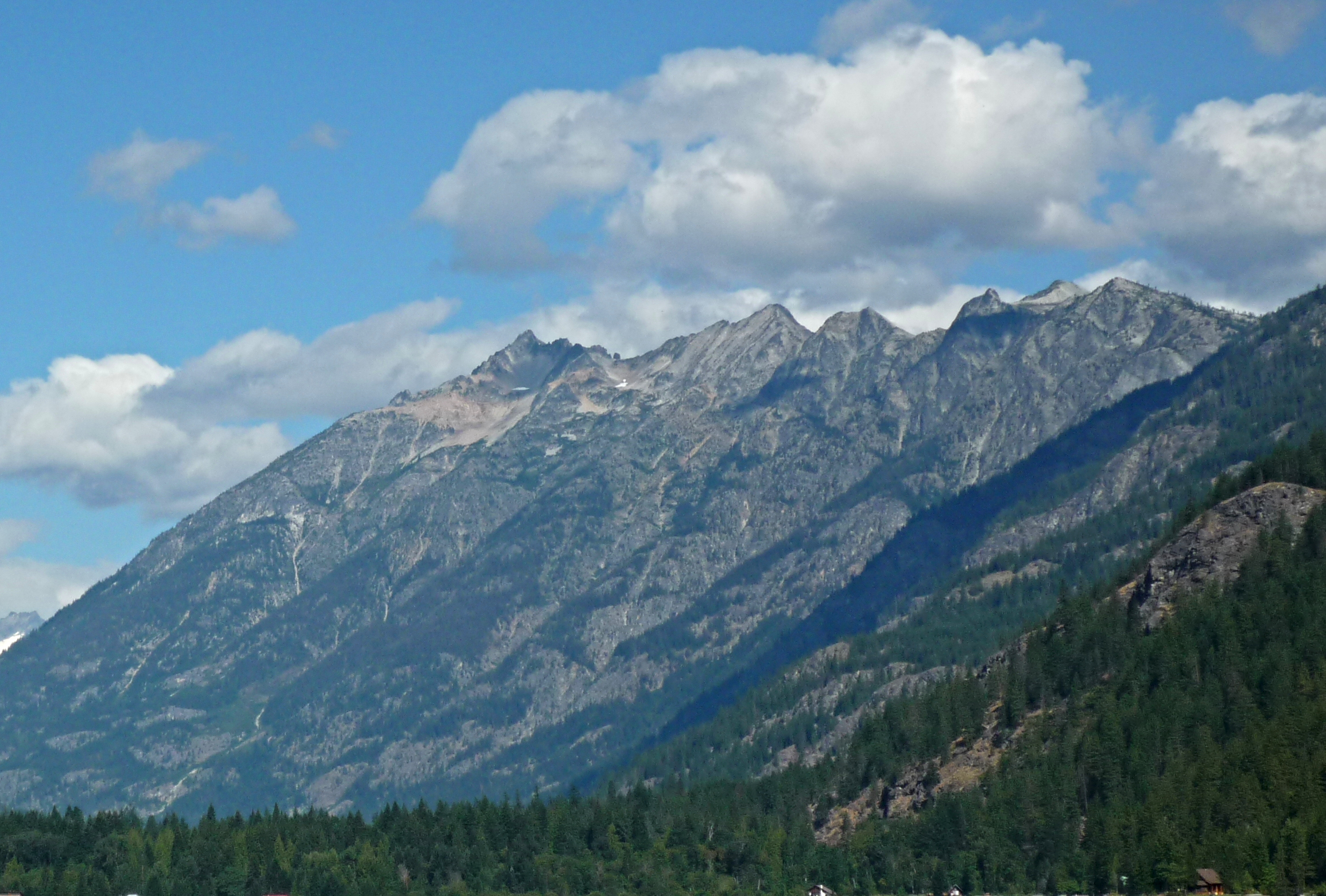 McGregor Mountain seen from Lake Chelan